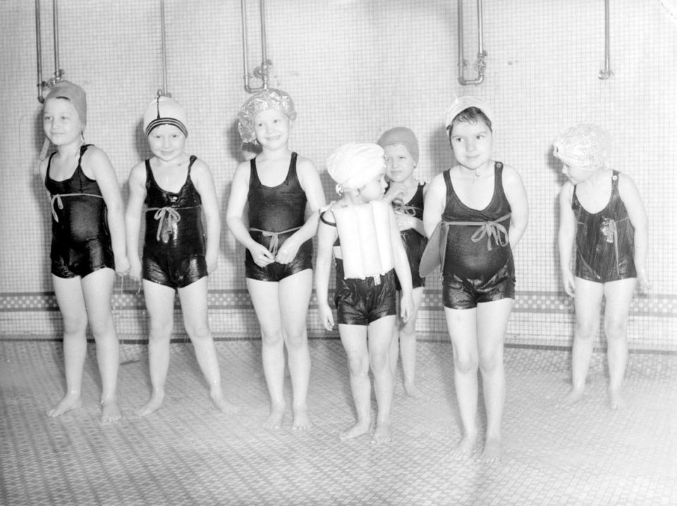 Kindergarten students of the "Montreal High School" in swimsuits, are in the shower room of the girls in a swimming pool. A little girl wearing a life jacket.